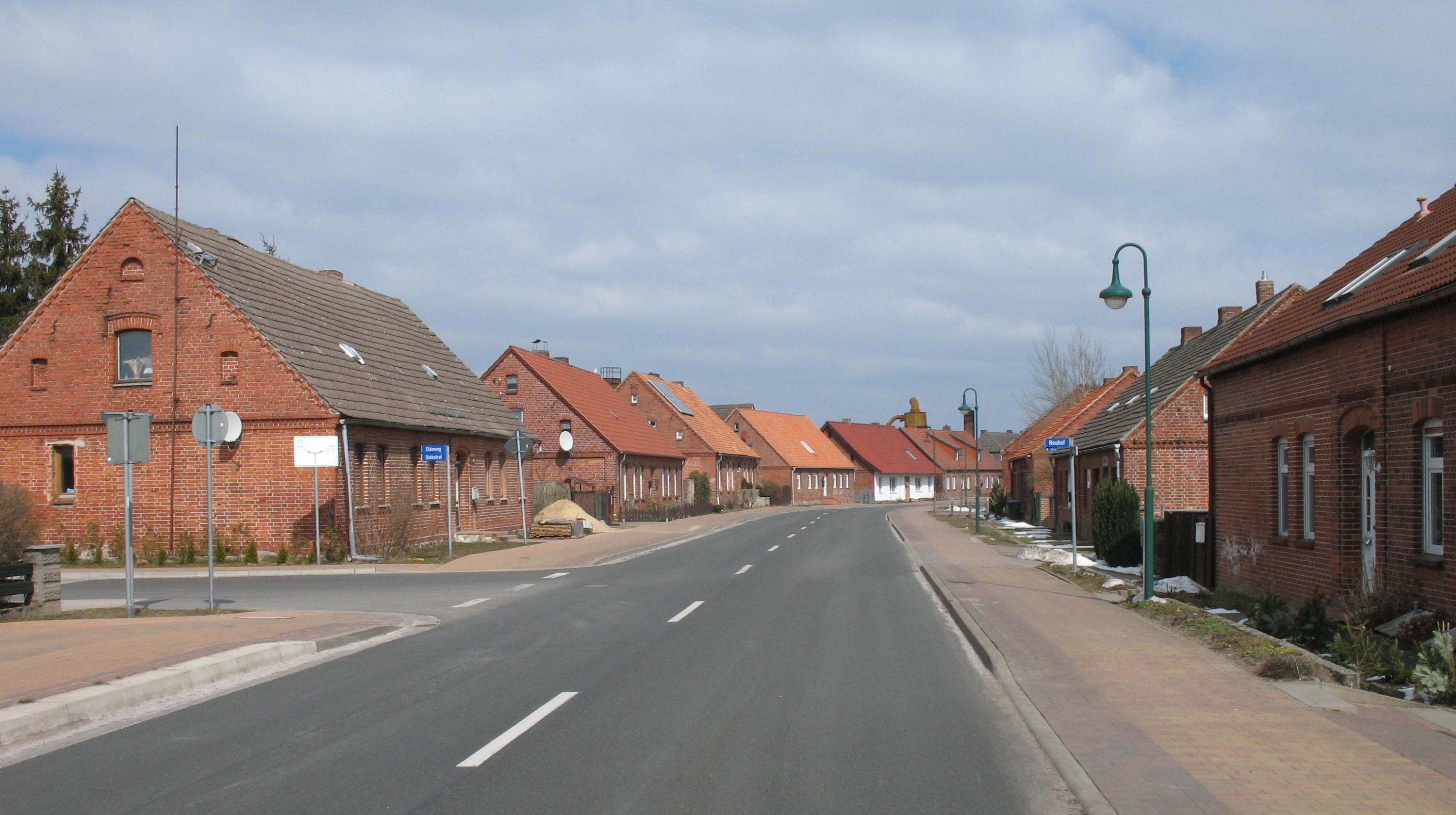 Wredenhagen in Mecklenburg-Western Pomerania, Germany